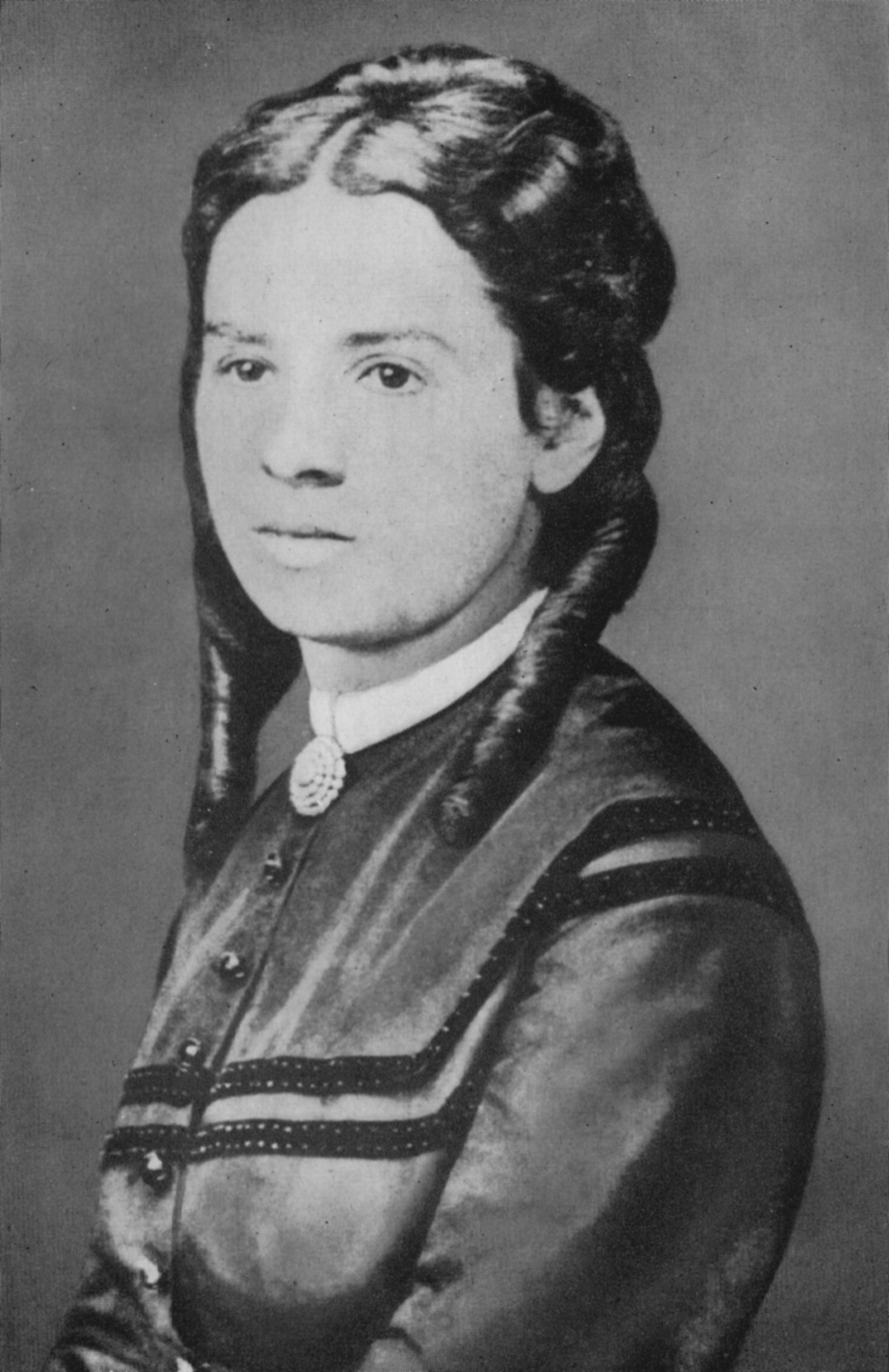 Gertrud Kugelmann